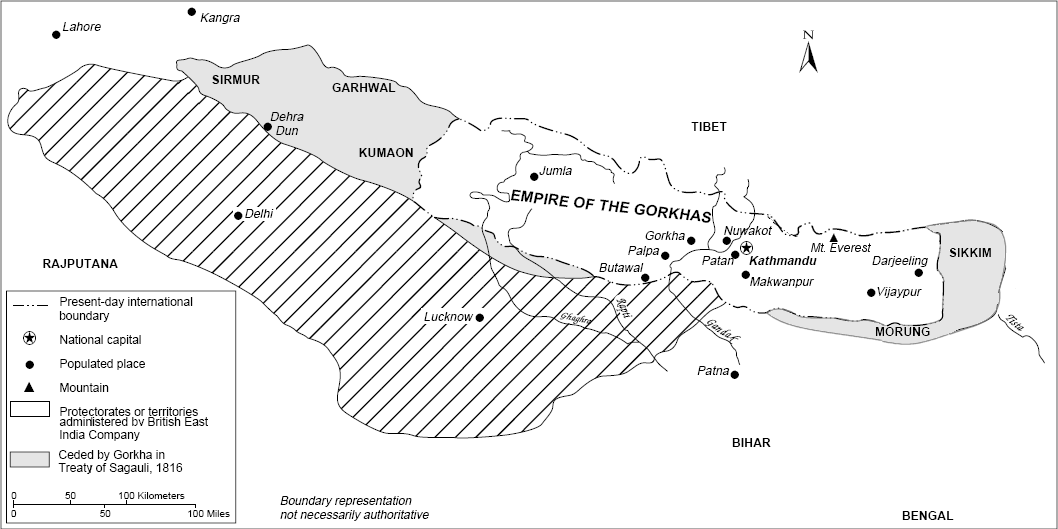 Selfmade based on original source: Library of Congress (archived)